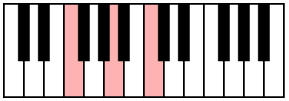 F major chord